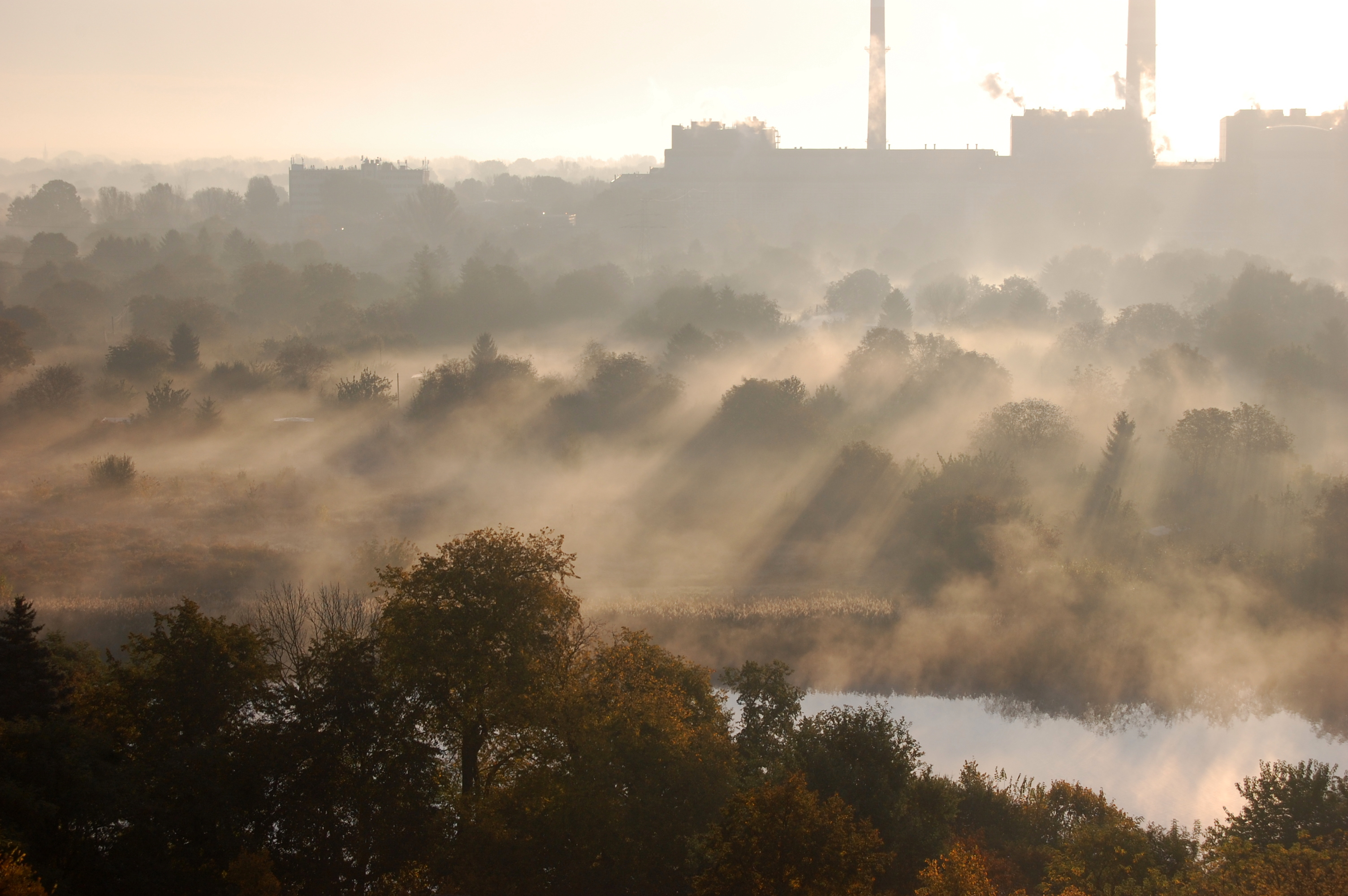 Morning haze in Augustówka, Warsaw